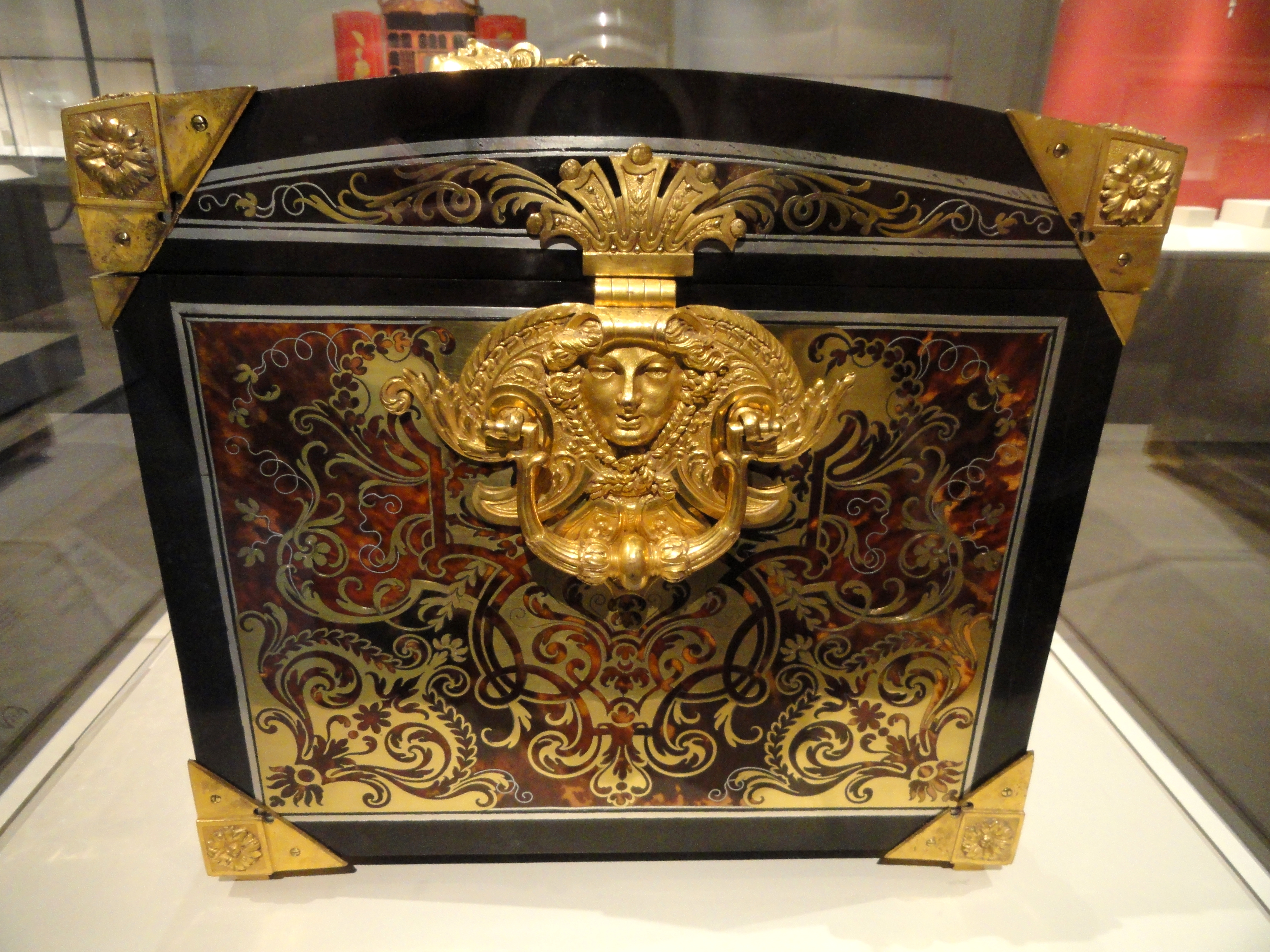 Exhibit in the Art Institute of Chicago, Chicago, Illinois, USA. This artwork is in the public domain because the artist died more than 70 years ago.